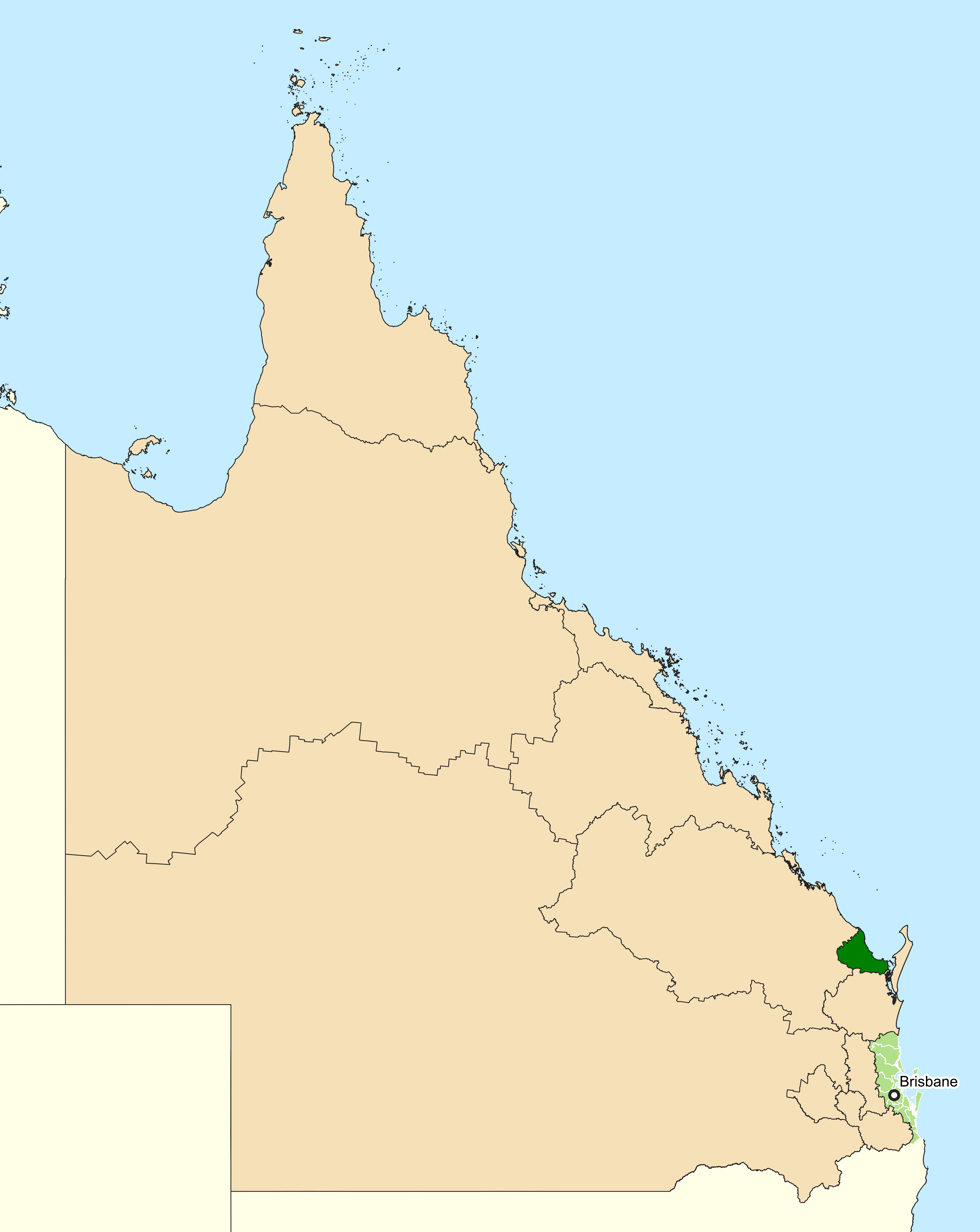 Location of the Australian federal electoral division of Hinkler (dark green) in Queensland as of the 2019 Australian federal election. Incorporates or developed using Administrative Boundaries ©PSMA Australia Limited licensed by the Commonwealth of Australia under Creative Commons Attribution 4.0 International licence (CC BY 4.0).